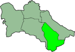 Mary Province, Turkmenistan